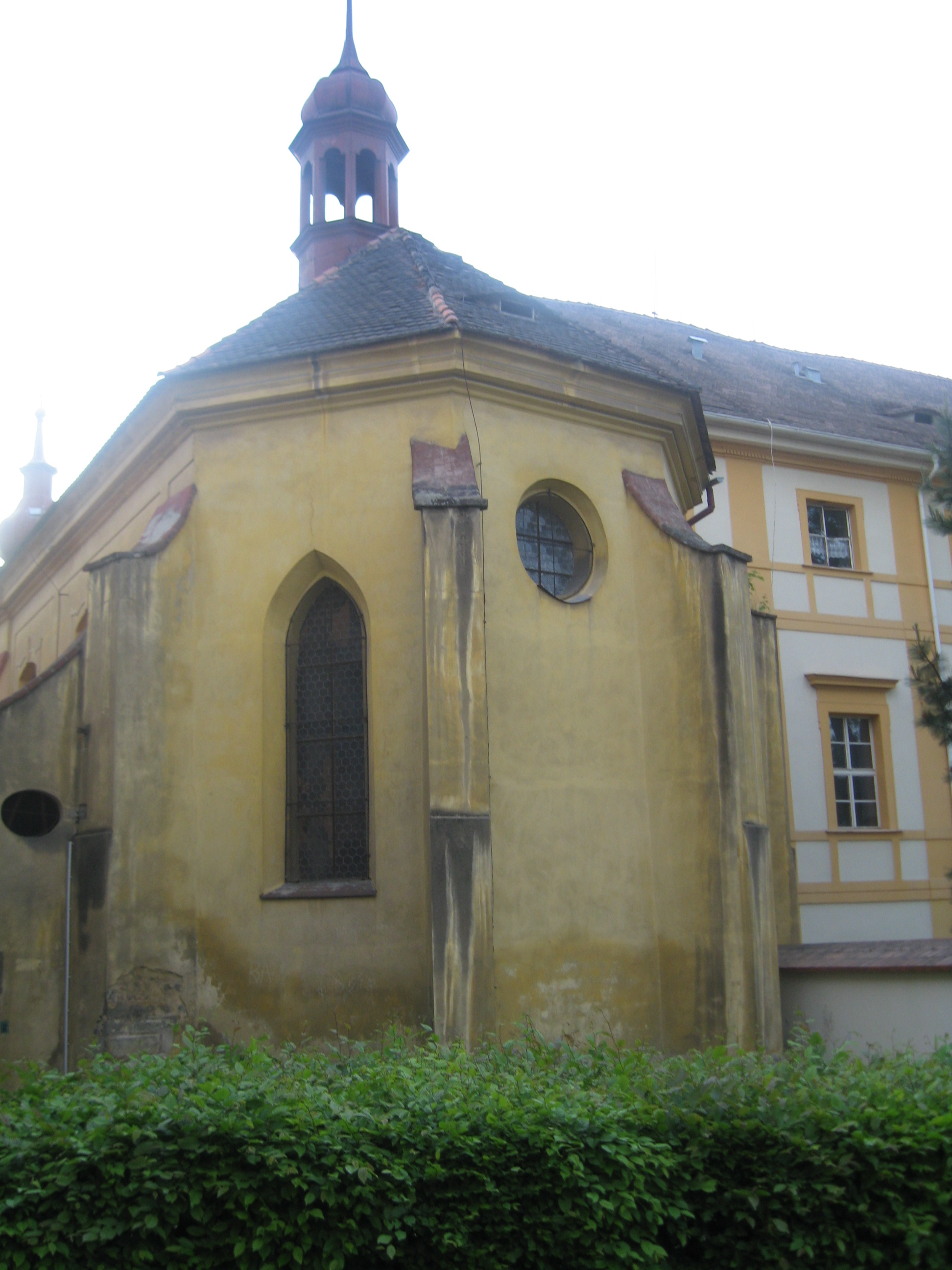 Gothic presbytery of the church in Světec